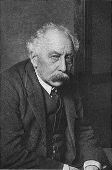 sepia portrait of the English evolutionary embryologist William Bateson